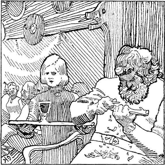 Christian Krohg: Illustration for Olav the Saints saga, Heimskringla 1899-edition. "It's Monday tomorrow, my lord."